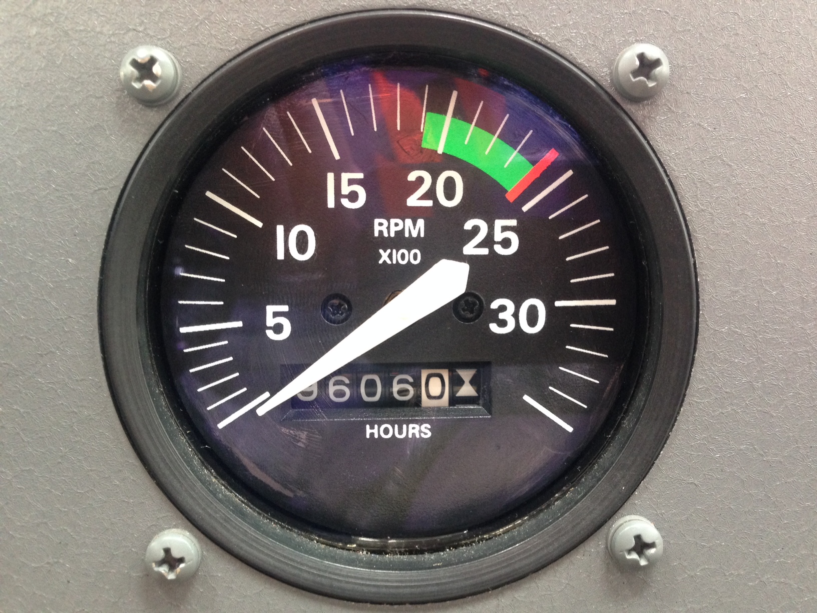 RPM gauge from a light aircraft